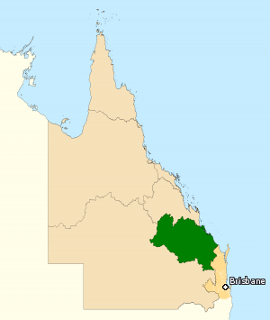 This image incorporates data that is: © Commonwealth of Australia (Australian Electoral Commission) 2009 Division of Flynn 2010